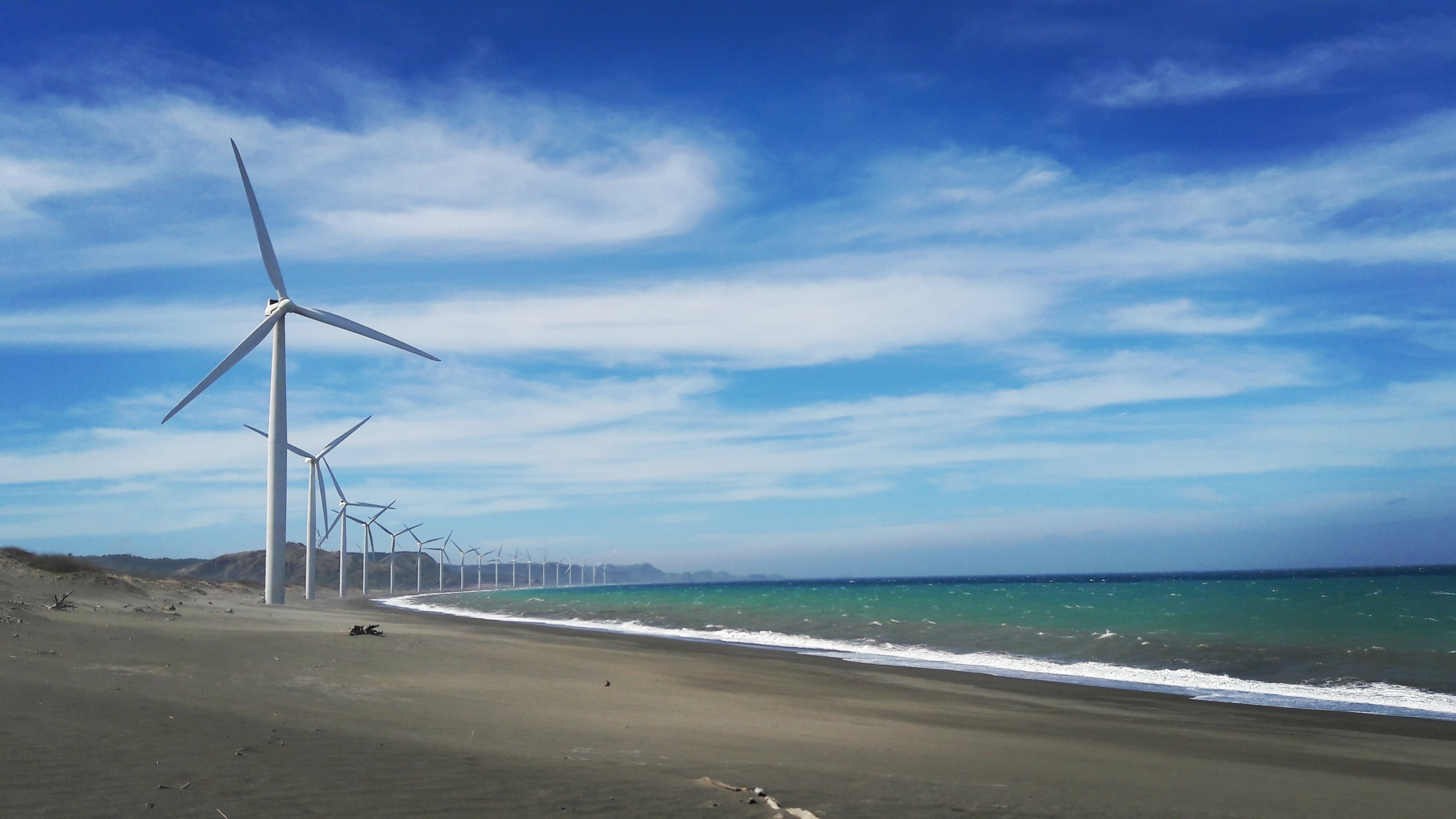 Standing in an arc in wind-lashed scrubland, the windmills, which started supplying electricity to 40 per cent of Ilocos Norte province in May, are the first source of clean energy introduced in the Phillipines, a nation with 84 million people reliant on oil and gas.